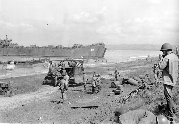 Unloading operations at White Beach Two, Luzon during Lingayen Gulf invasion operations by US Task Force LST 469 off shore. As seen from USS FELAND (APA 11). Lt.(jg) Harold Matt, beach-master from USS Feland in right foreground.